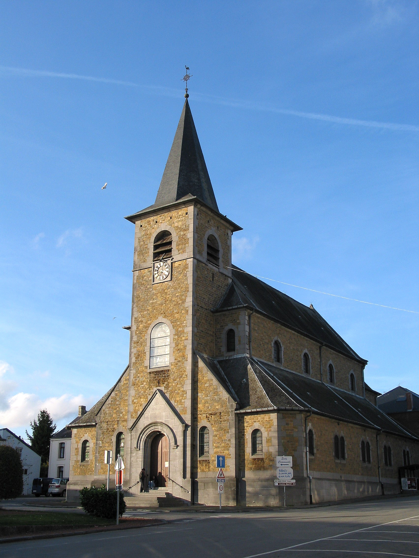 Sivry (Belgium), the church.